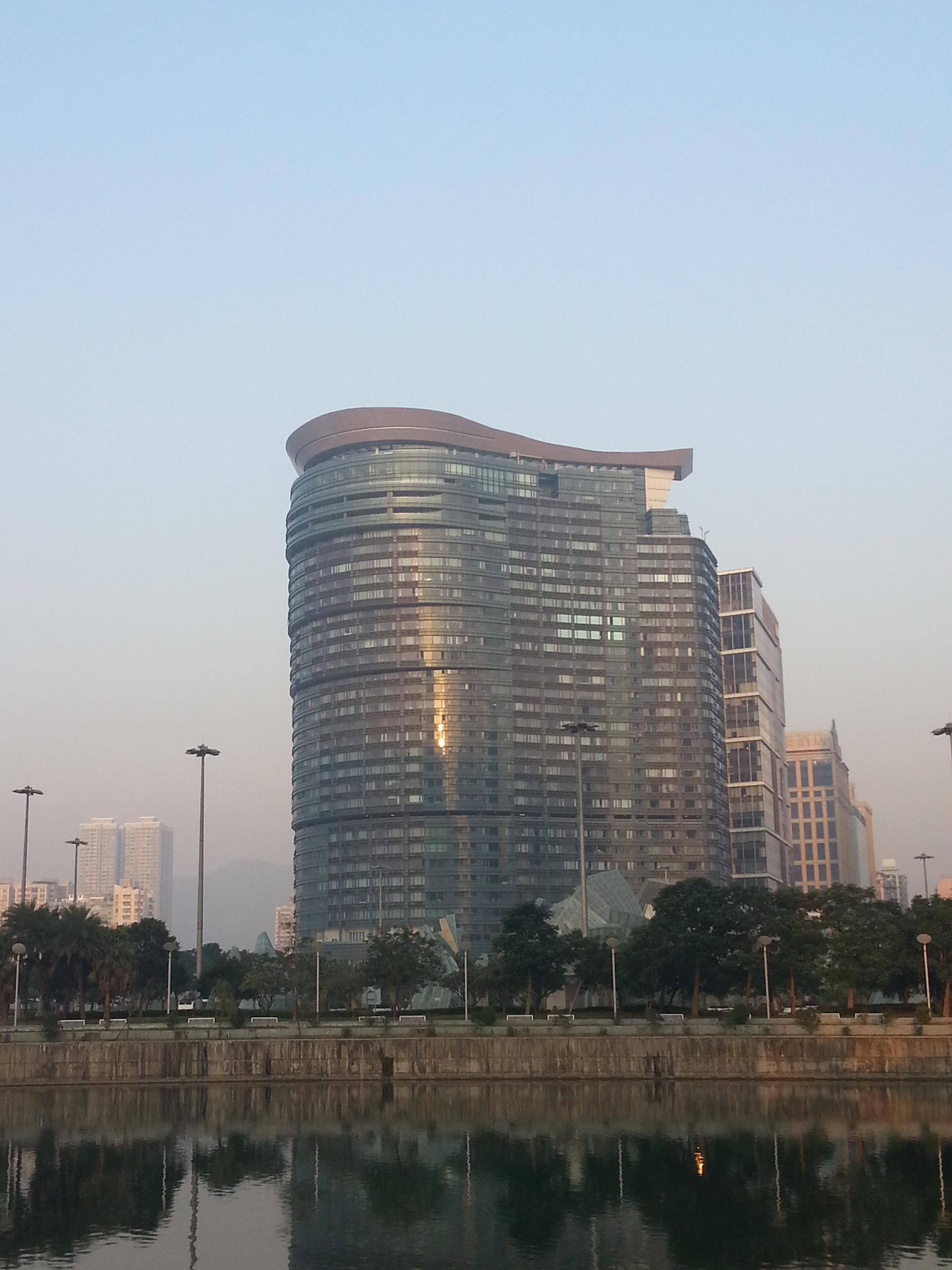 Lakeview Tower of Macau as seen front waterfront next to Wynn Macau